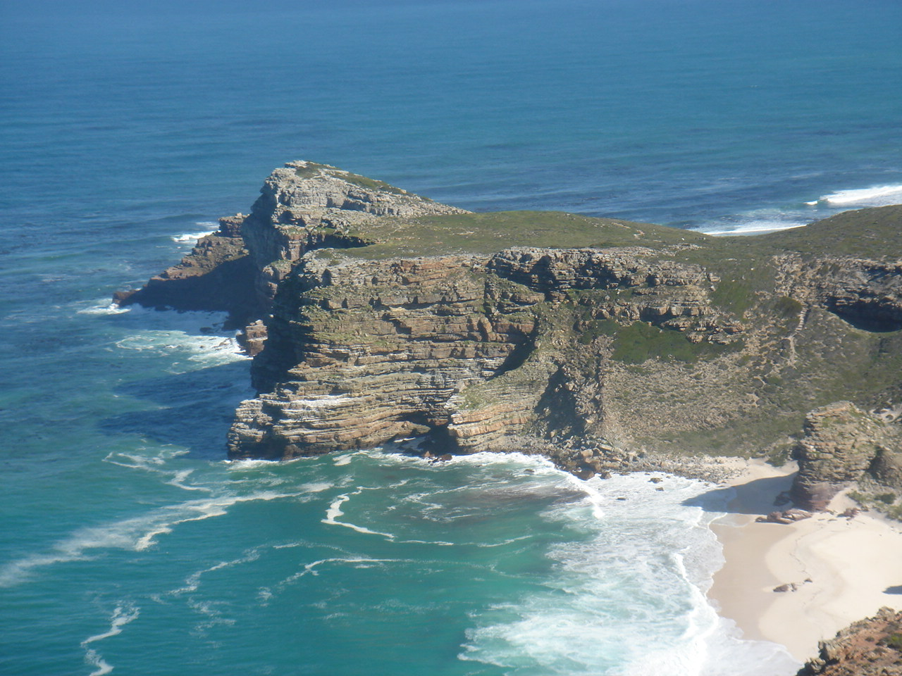 The Cape of Good Hope, South Africa, seen from Cape Point.